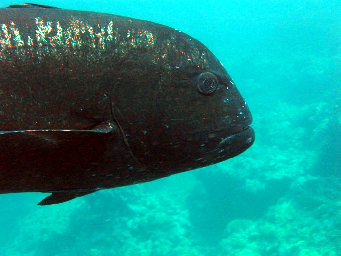 reef0613, NOAA's Coral Kingdom Collection. Northwest Hawaiian islands. A giant trevally showing black colouration.